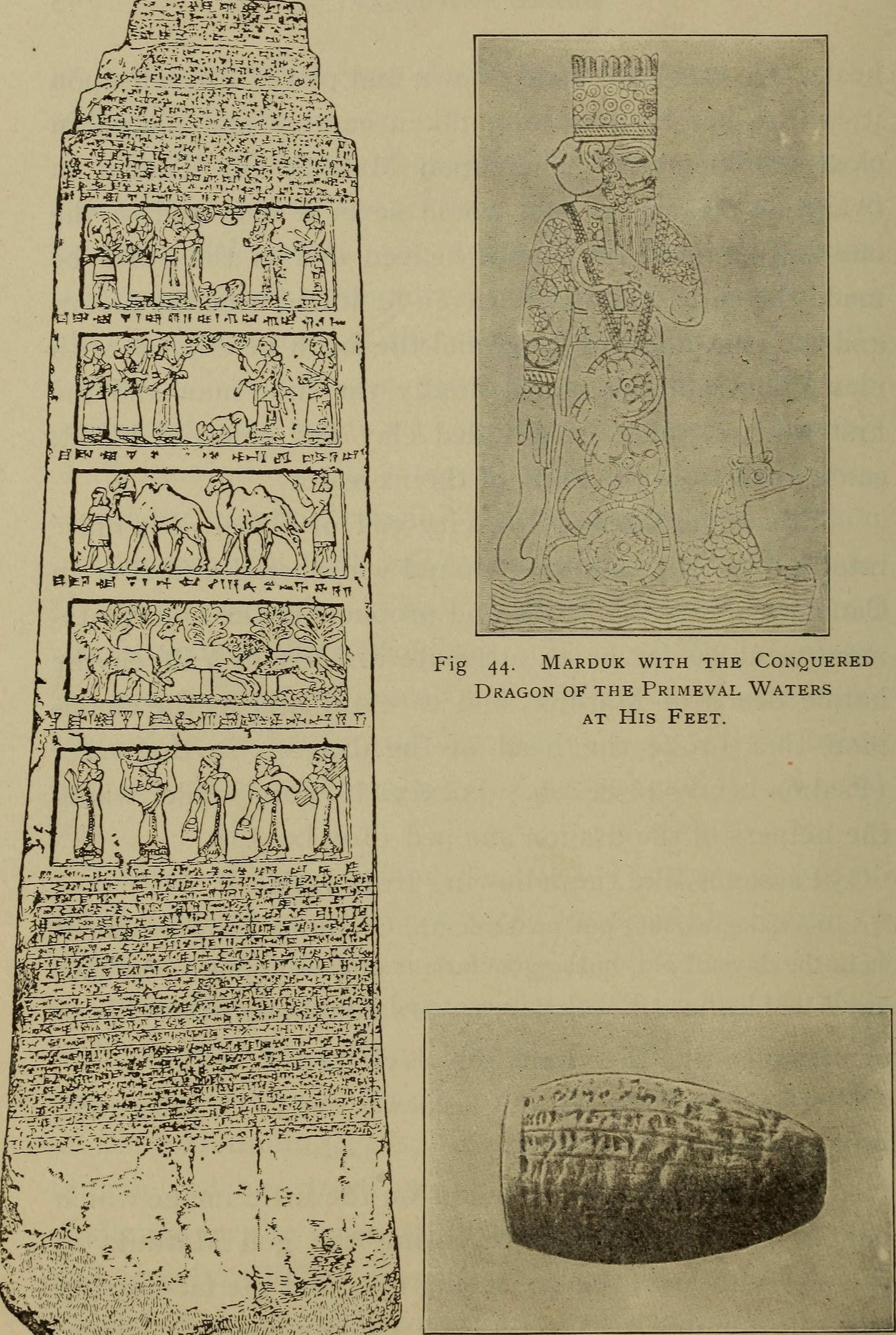 Title: Babel and Bible; Year: 1906 (1900s) Authors: Delitzsch, Friedrich, 1850-1922 McCormack, Joseph, 1865- (from old catalog) tr Carruth, William Herbert, 1859-1924, (from old catalog) tr Robinson, Lydia Gillingham, b. 1875, tr Subjects: Bible Publisher: Chicago, The Open court publishing company Text Appearing Before Image: is story found widespread diffusion inCanaan. Nay, the poets and prophets of the Old Testa-ment went so far as to attribute directly to Yahveh theheroic deeds of Marduk, and to extol him as the cham-pion that broke the head of the dragons in the water(Psalms lxxiv. 13 et seq. ; lxxxix. 10), and under whomthe helpers of the dragon stooped (Job ix. 13). Passages like the following from Isaiah li. 9:Awake, awake, put on strength, O arm of Yahveh; awake,as in the days of old, in the generations of ancient times. Art thounot it that hath cut Rahab in pieces and pierced the dragon? or passages like that from Job xxvi. 12: He divideth the sea with his power, and by his understand-ing he smiteth the dragon, read like explanatory comments on the little image whichour expedition found representing the god Marduk, ofthe powerful arm, the far-seeing eye, and the far-hearingear, the symbol of intelligence clad in majestic glory,with the conquered dragon of the primeval waters at hisfeet (Fig. 44). Text Appearing After Image: '